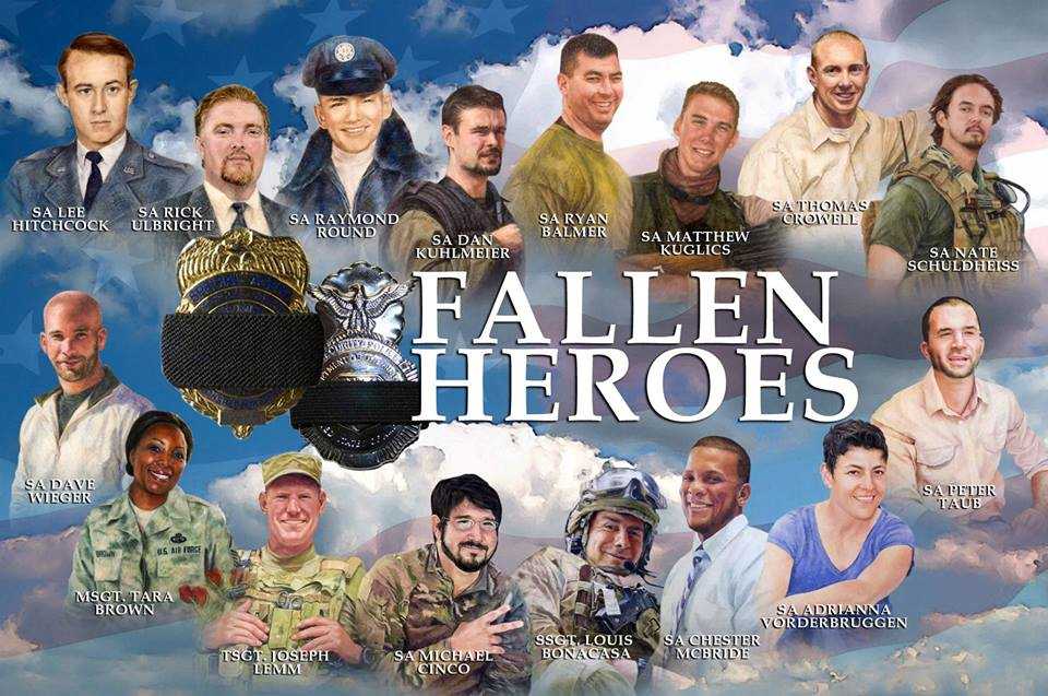 AFOSI Fallen Heroes